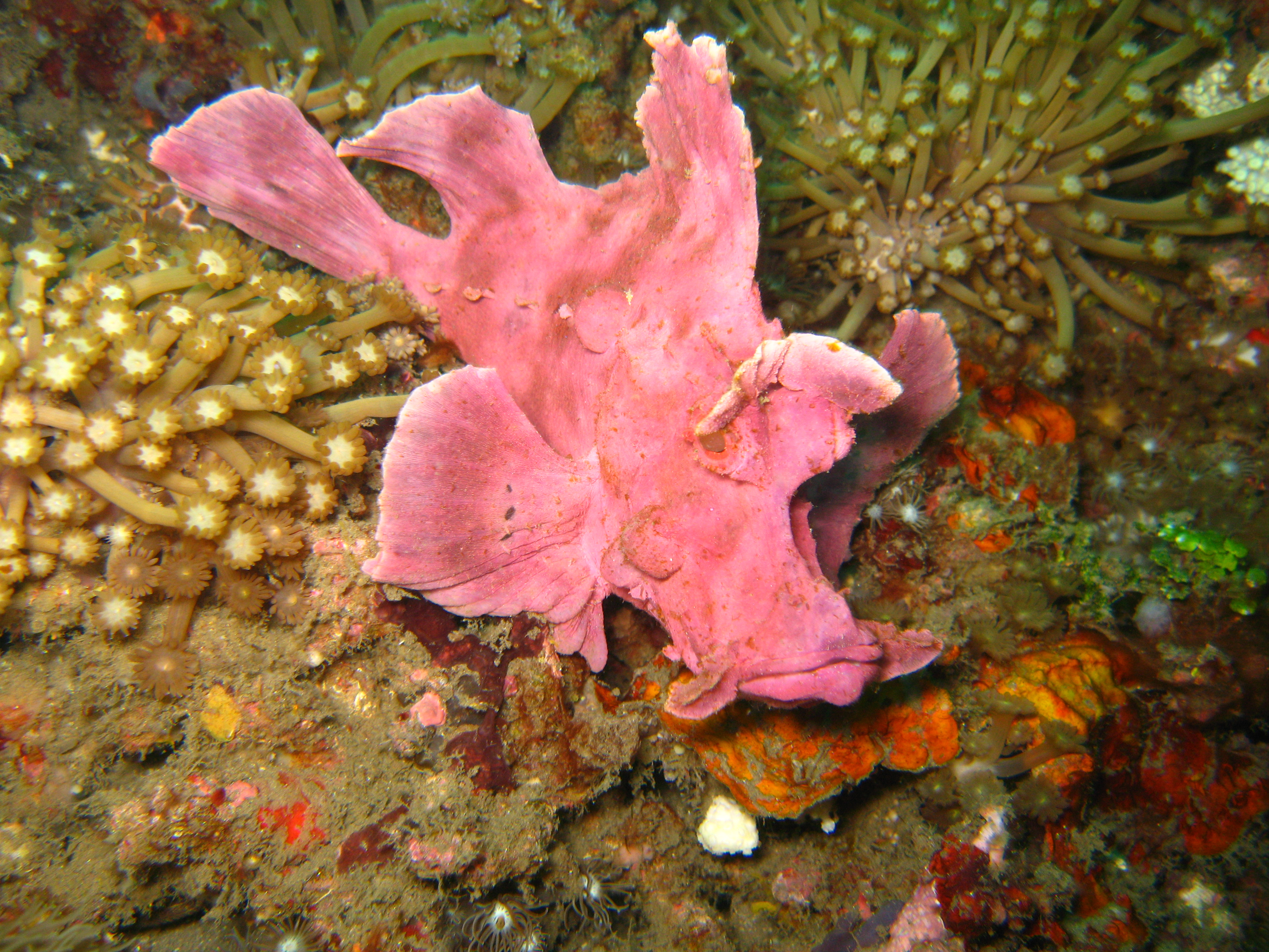 Image of a weedy scorpionfish, Rhinopias frondosa. Taken at Lembeh straits, North Sulawesi, Indonesia.